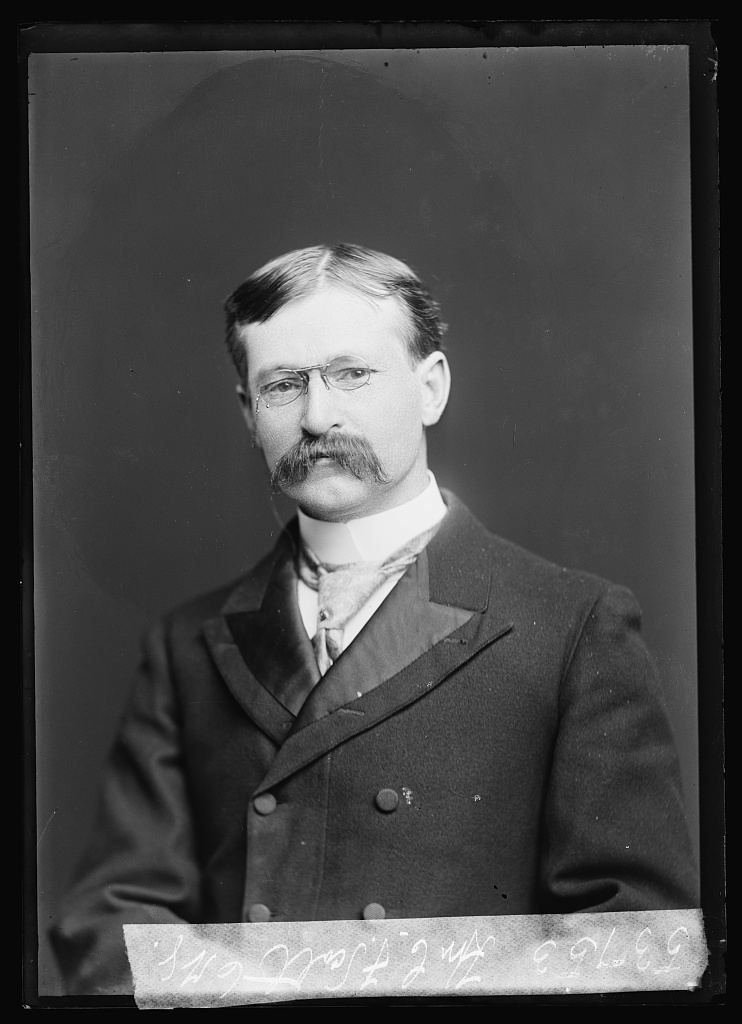 Charles Frederick Scott photographed by C. M. Bell Studio